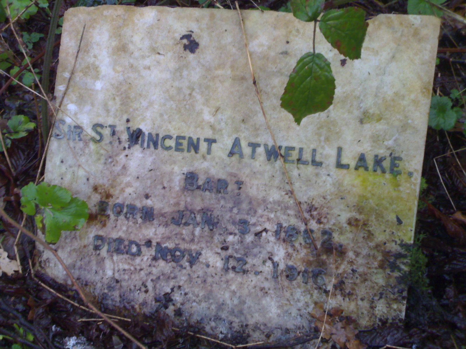 Gravestone of Sir St Vincent Atwell Lake, 7th Baronet. Born 3 January 1862 and died 12 November 1916.